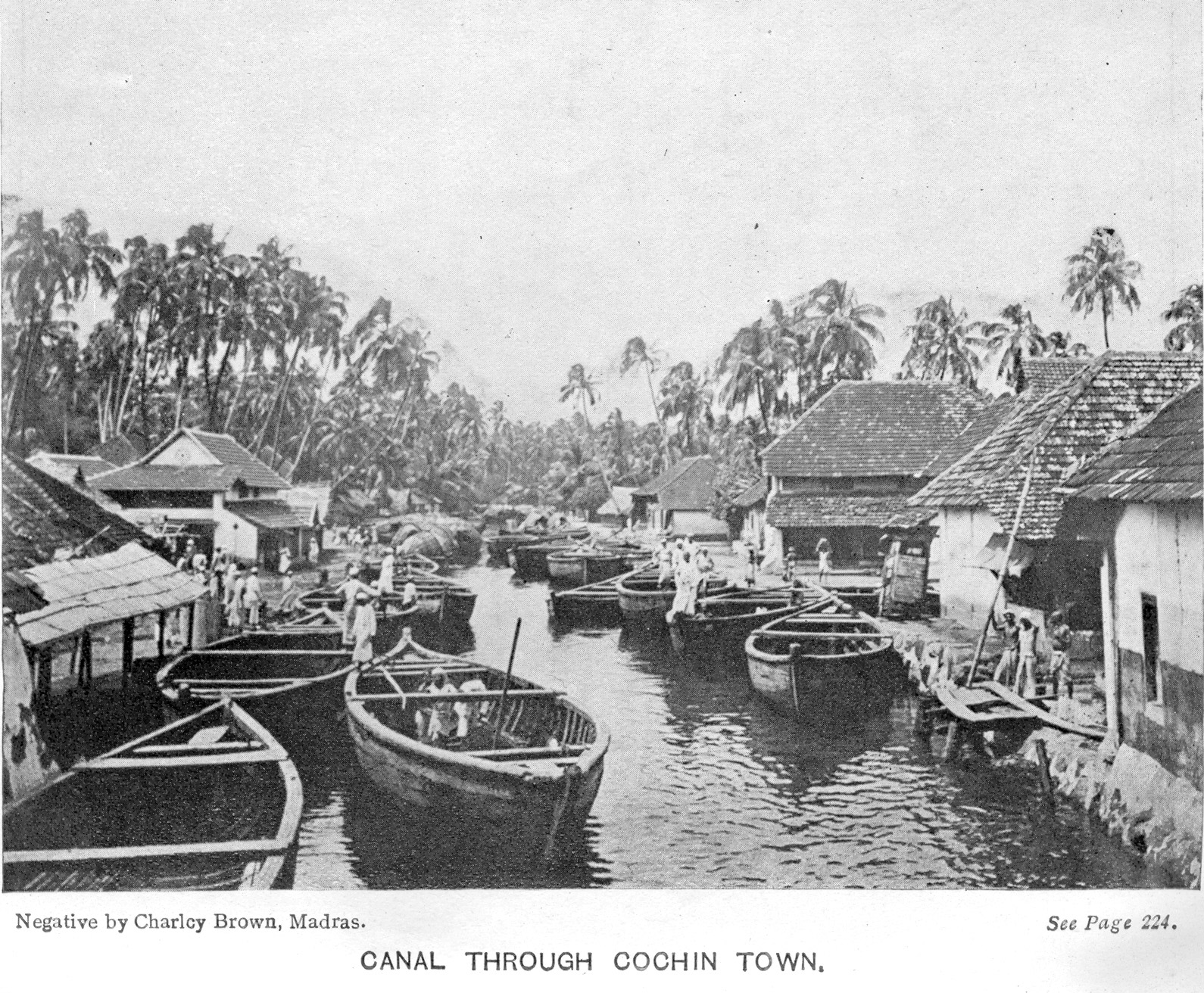 Cochin Canal